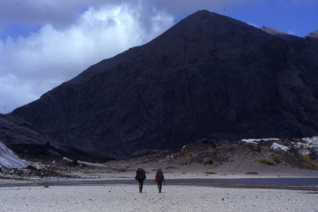 Long walk to the great West coast of the Kerguelen archipelago. Two Brothers Mountains (Monts des Deux Frères) in the background.